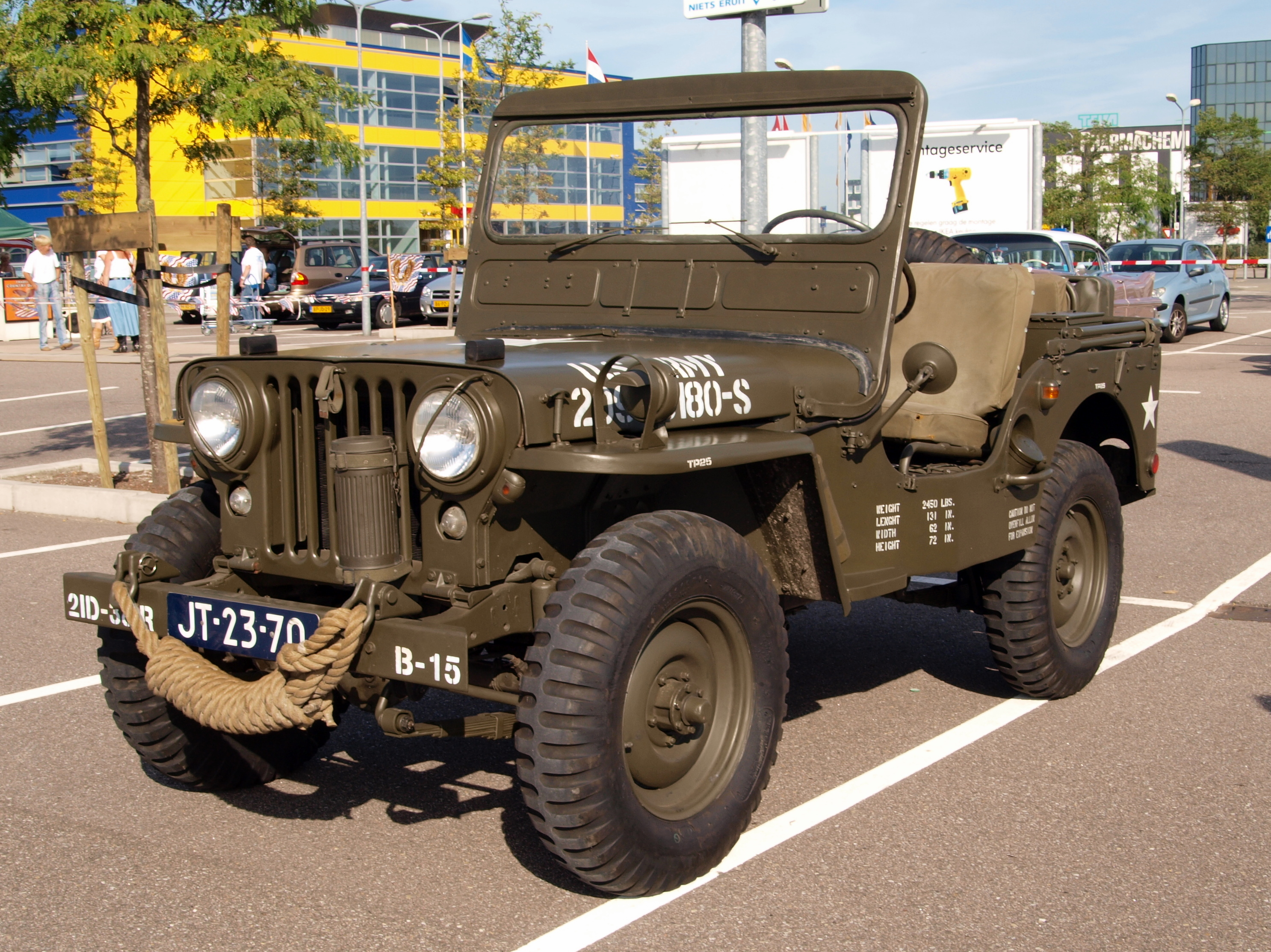 Willys M38 JT-23-70